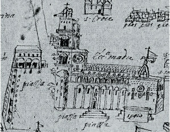 Altamura Cathedral (end of the XVI century) - Taken from Archivio Generalizio Agostiniano - Biblioteca Angelica - Rome, carte Rocca P/33 - End of the XVI century